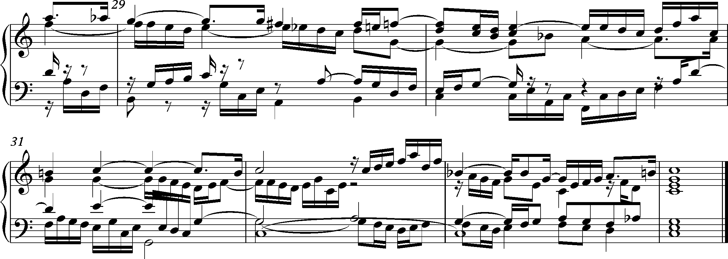 Prelude in C from Well-Tempered Clavier Book 2 concluding bars